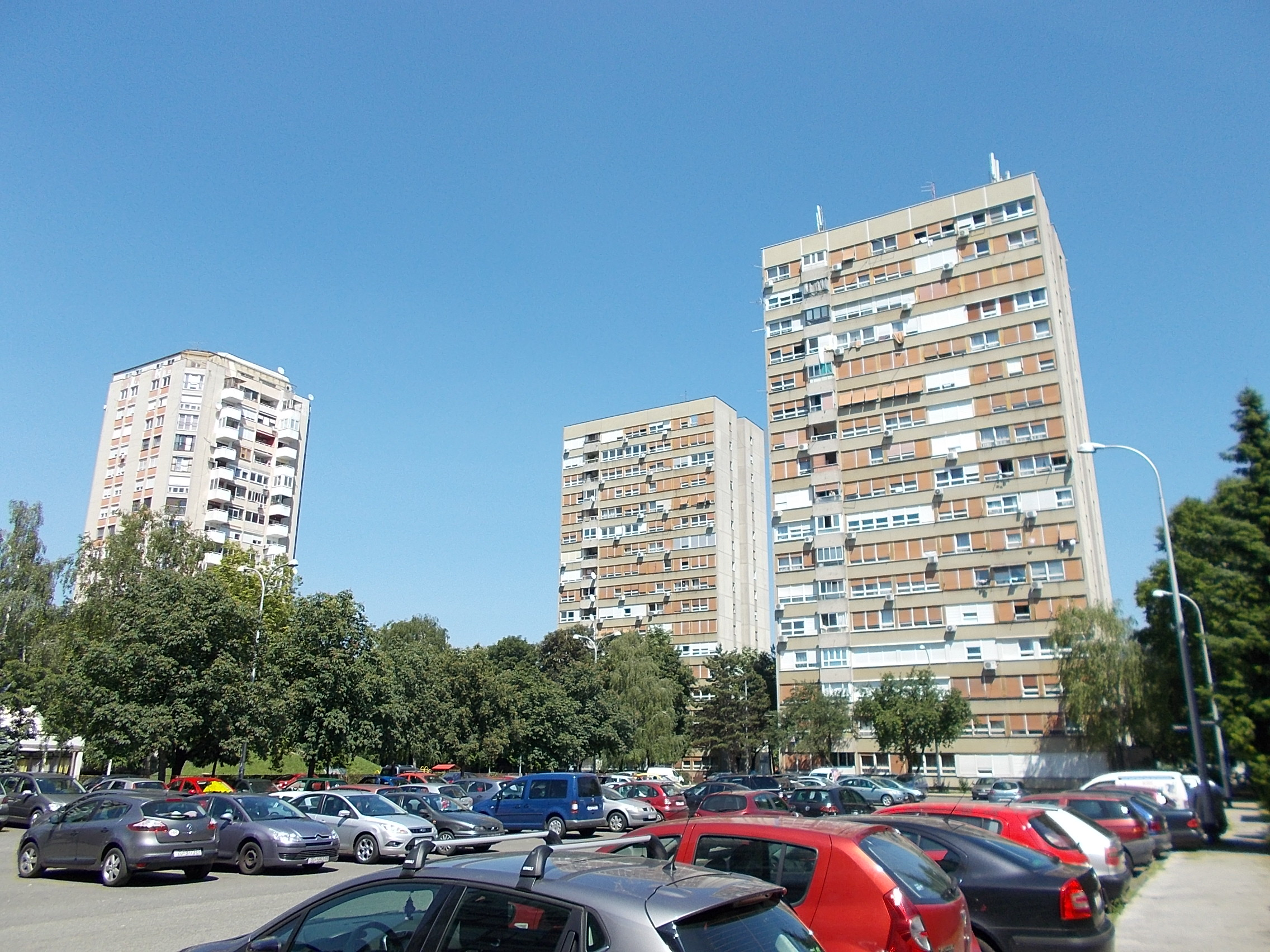 Residental buildings in Utrina, Novi Zagreb.